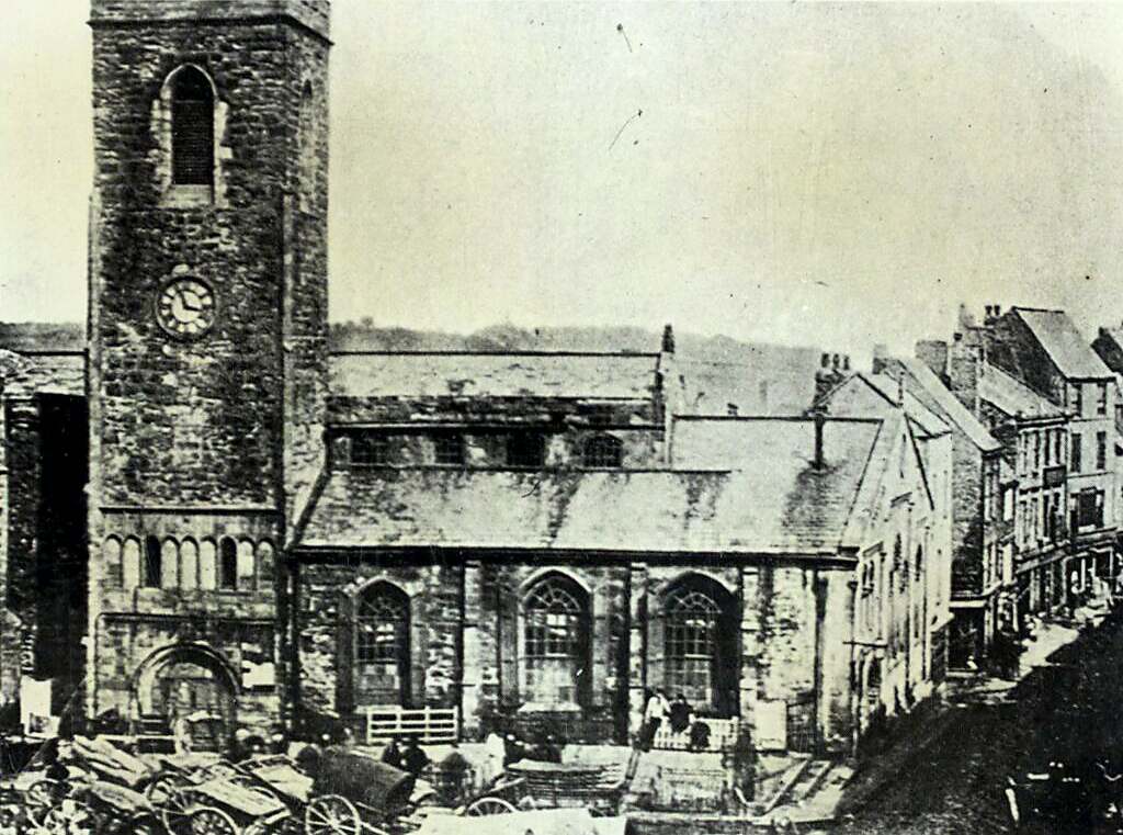 St Nicholas' Church, Durham, before 1858